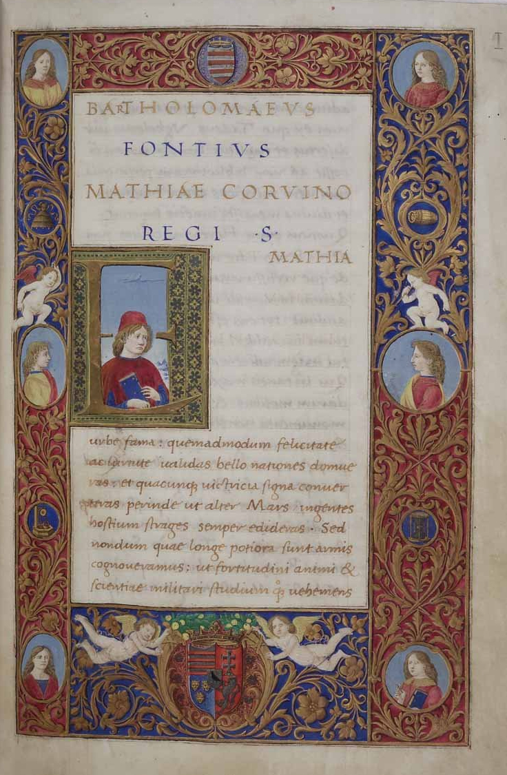 Title page of Cod. Guelf. 43 Aug 2°, a codex once owned by Matthias Corvinus of Hungary. The codex contains the Opera of Bartholomaeus Fontius, written in 1488. Part of the Bibliotheca Corviniana, listed in the Memory of the World Register.